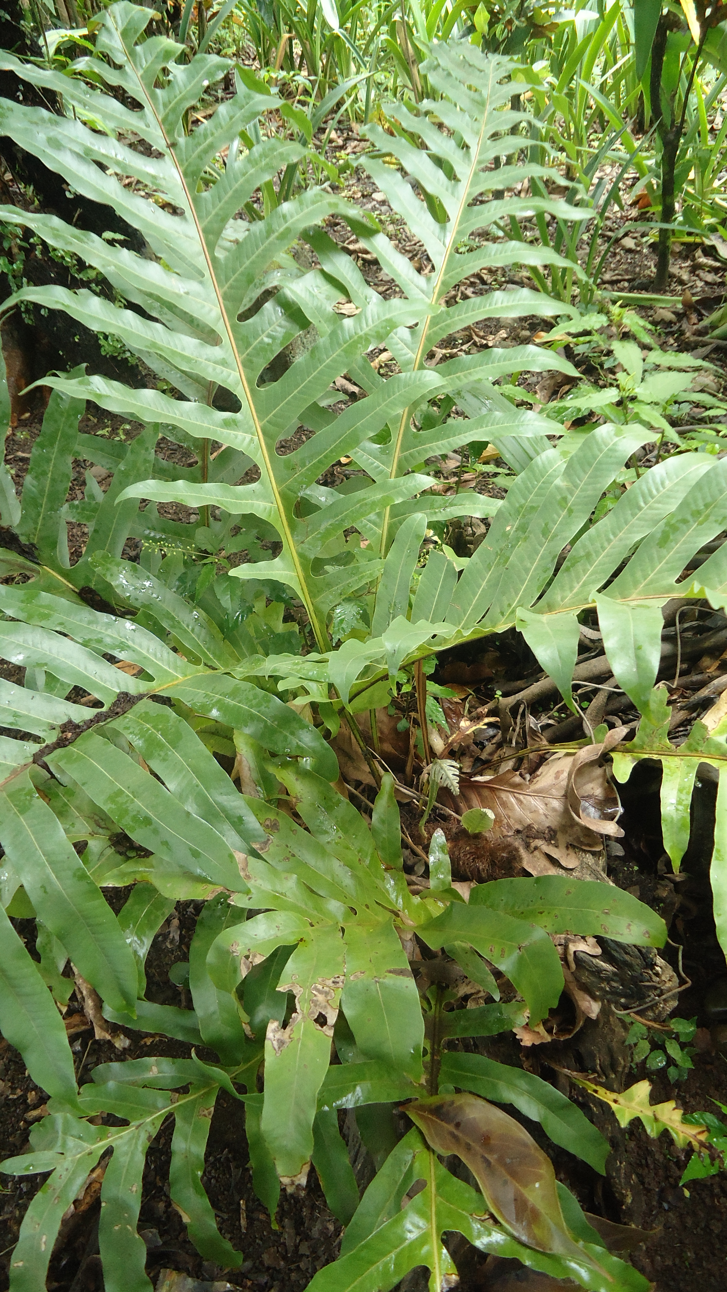 Drynaria quercifolia (Mindanao, Philippines)